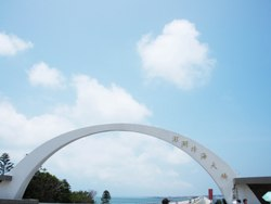 Showing the Trans-Ocean Bridge.中文（台灣）: 跨海大橋。